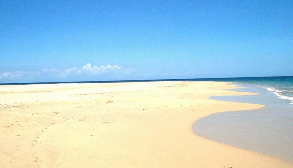 Playa Punta Arenas, Margarita Island.